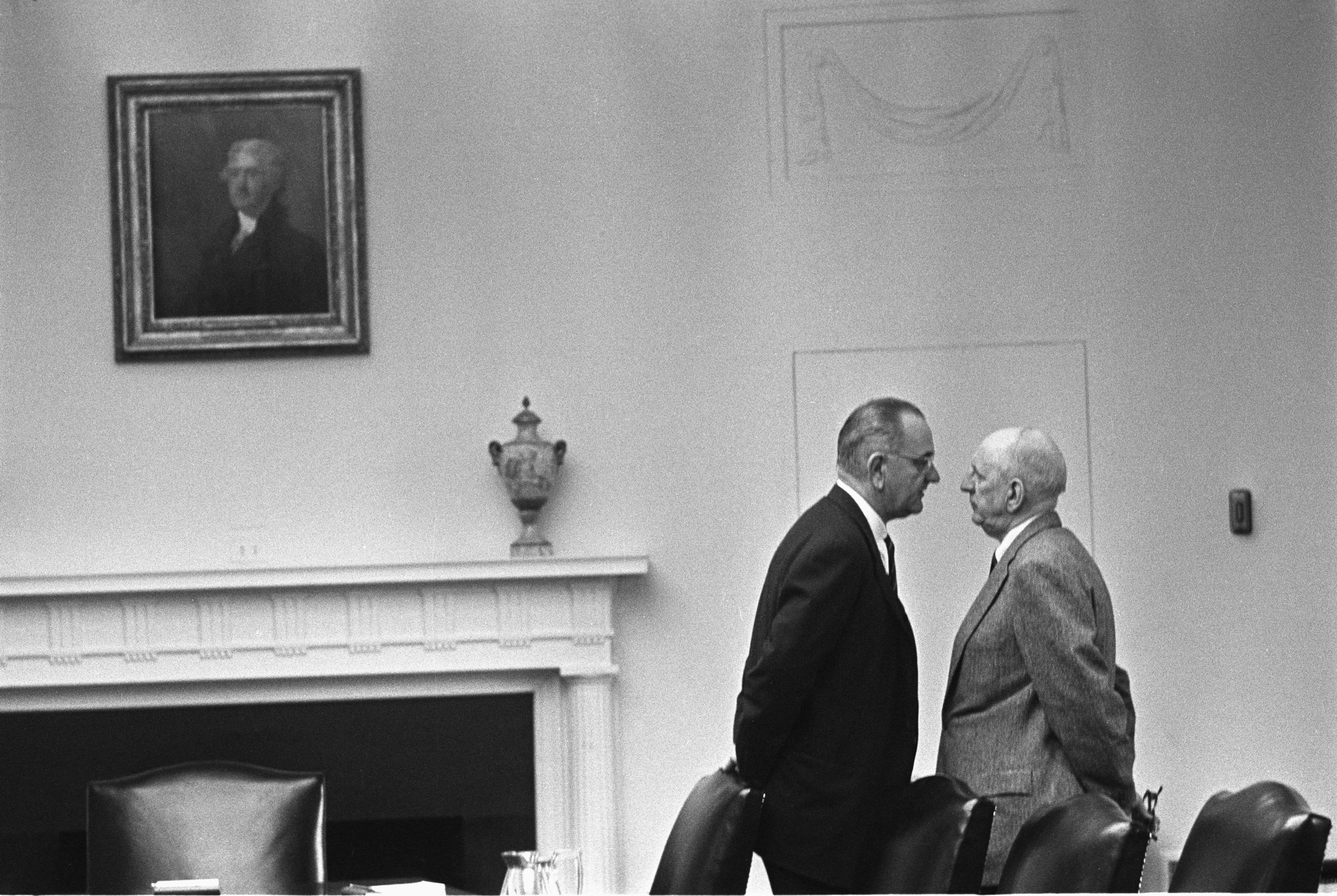 Lyndon B. Johnson meets with Sen. Richard Russell